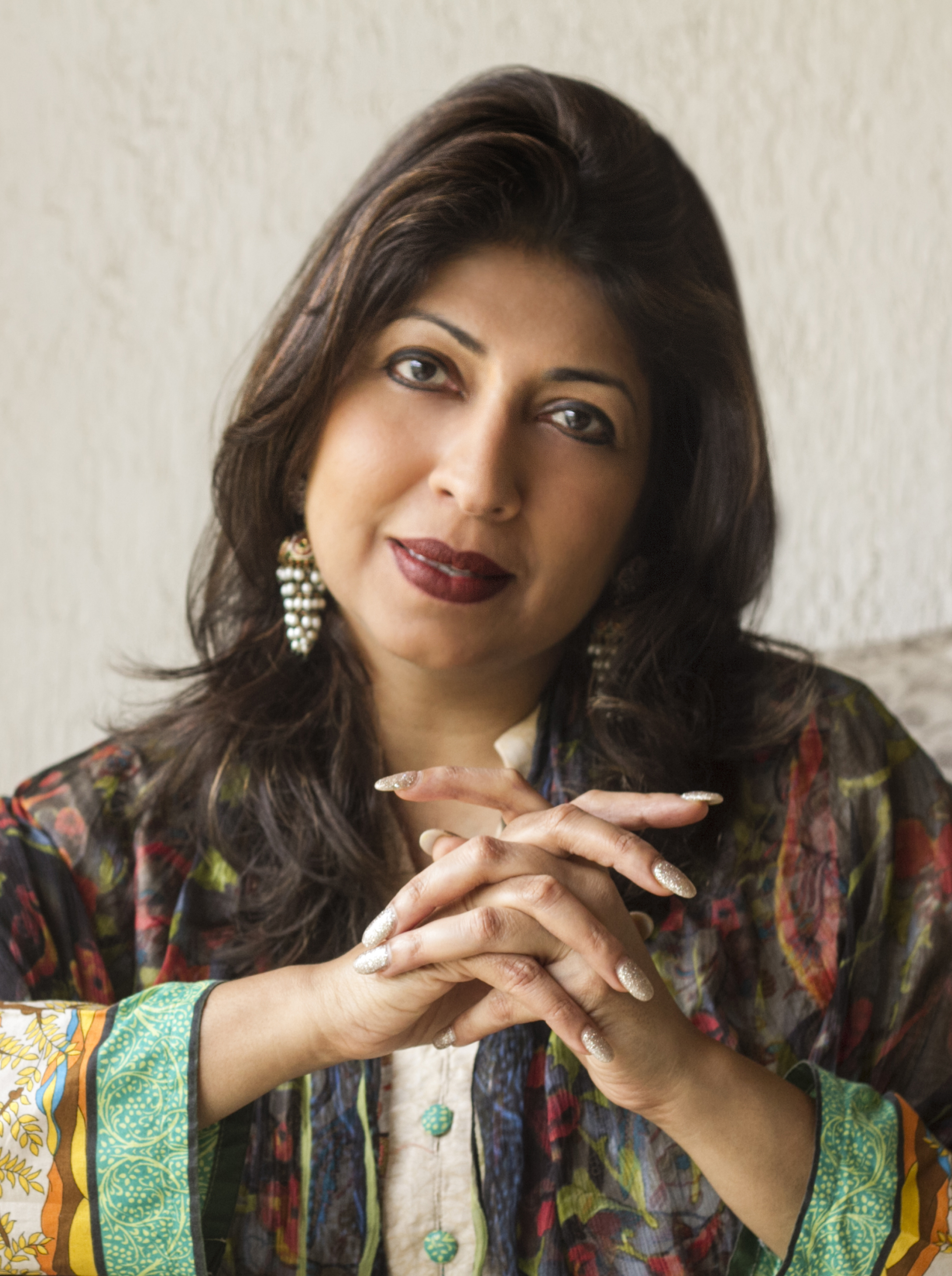 Vibha Bakshi Two Time National Film Award Winning Director & Producer